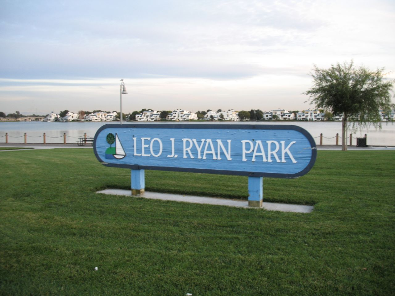 Leo J. Ryan Park, Taken with a Canon PowerShot A620. [1]